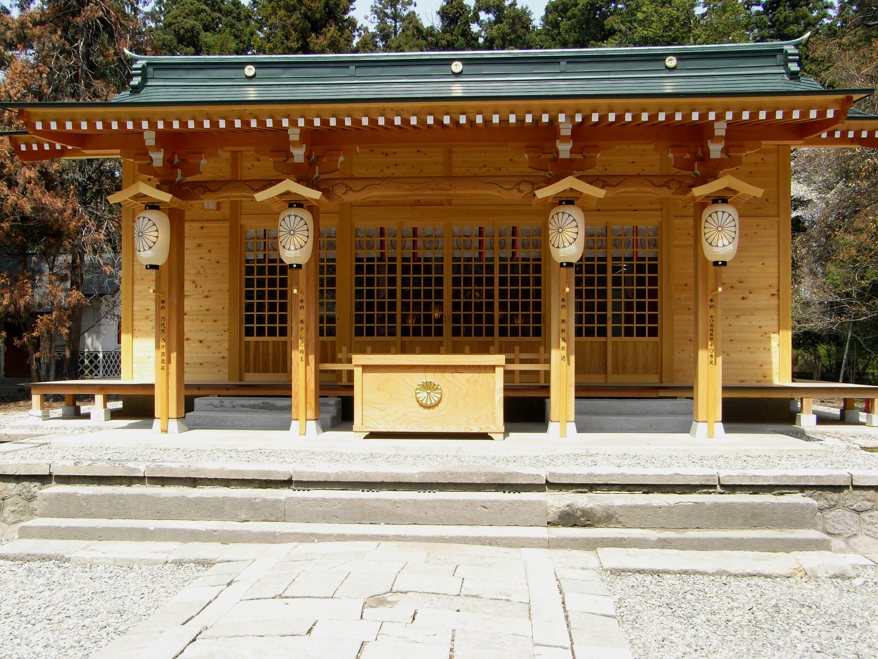 the kari-honden of Isasumi Shrine,Aizu-Misato, Fukushima, Japan.